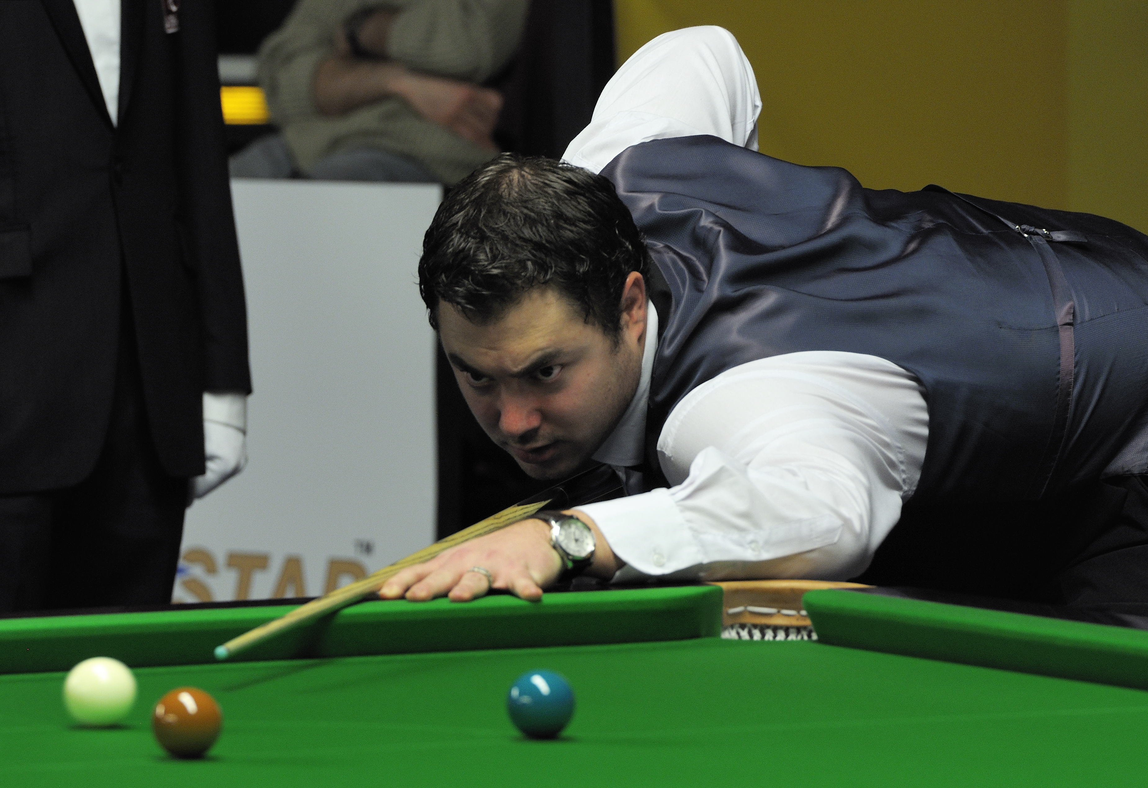 Picture taken in Berlin during the Snooker German Masters in 2013. Kurt Maflin.